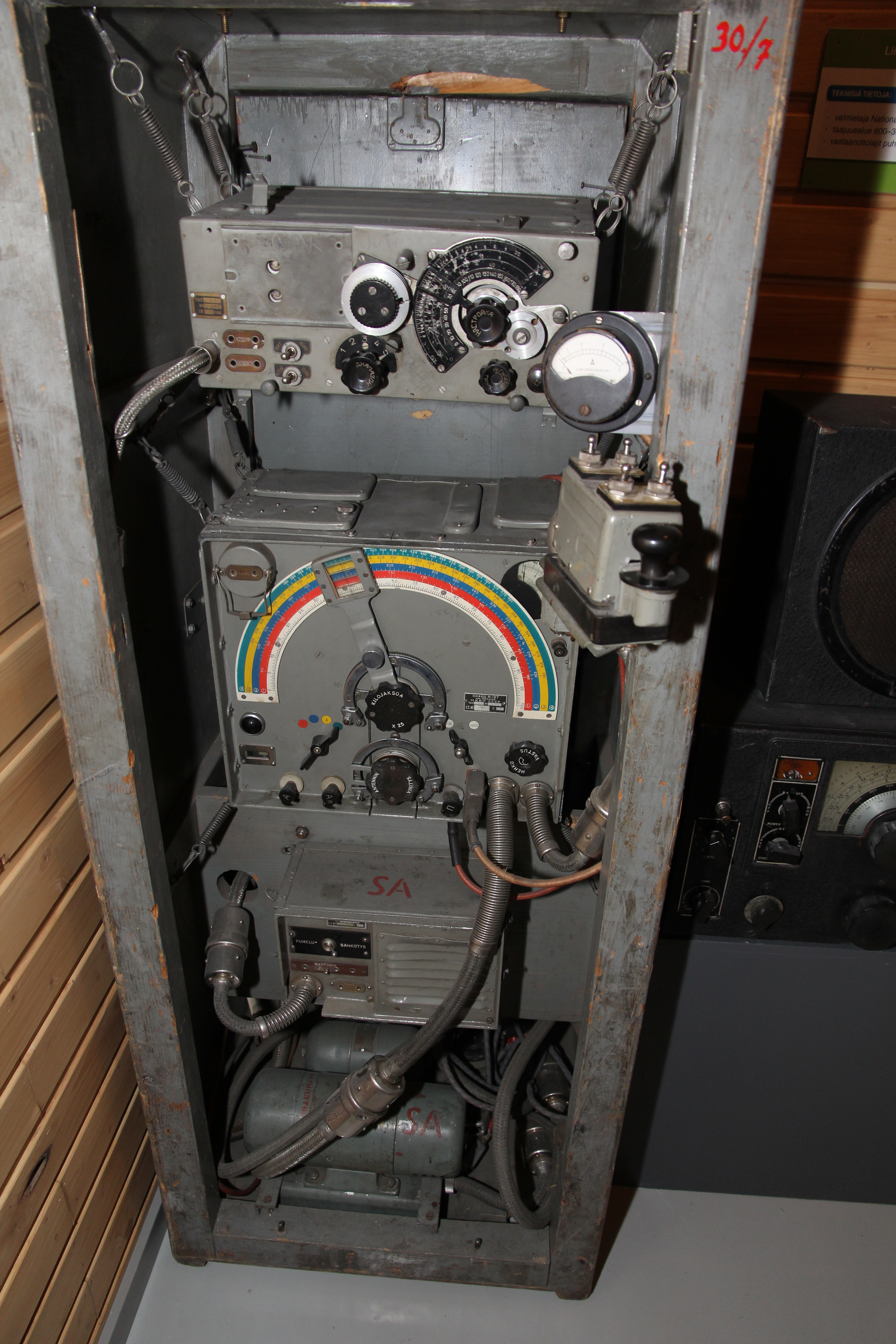 A (captured?) Soviet RSB radio set. Photographed in the Finnish Air Force signals museum.